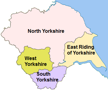 Ceremonial Counties of Yorkshire since 1998